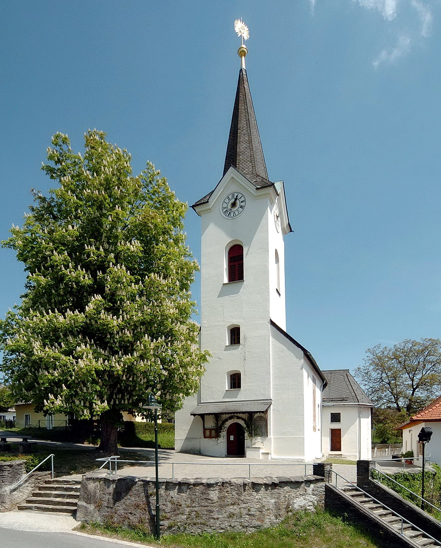 Parish church Saint Michael in Schiefling, market town Schiefling am Wörther See, district Klagenfurt Land, Carinthia, Austria, EU